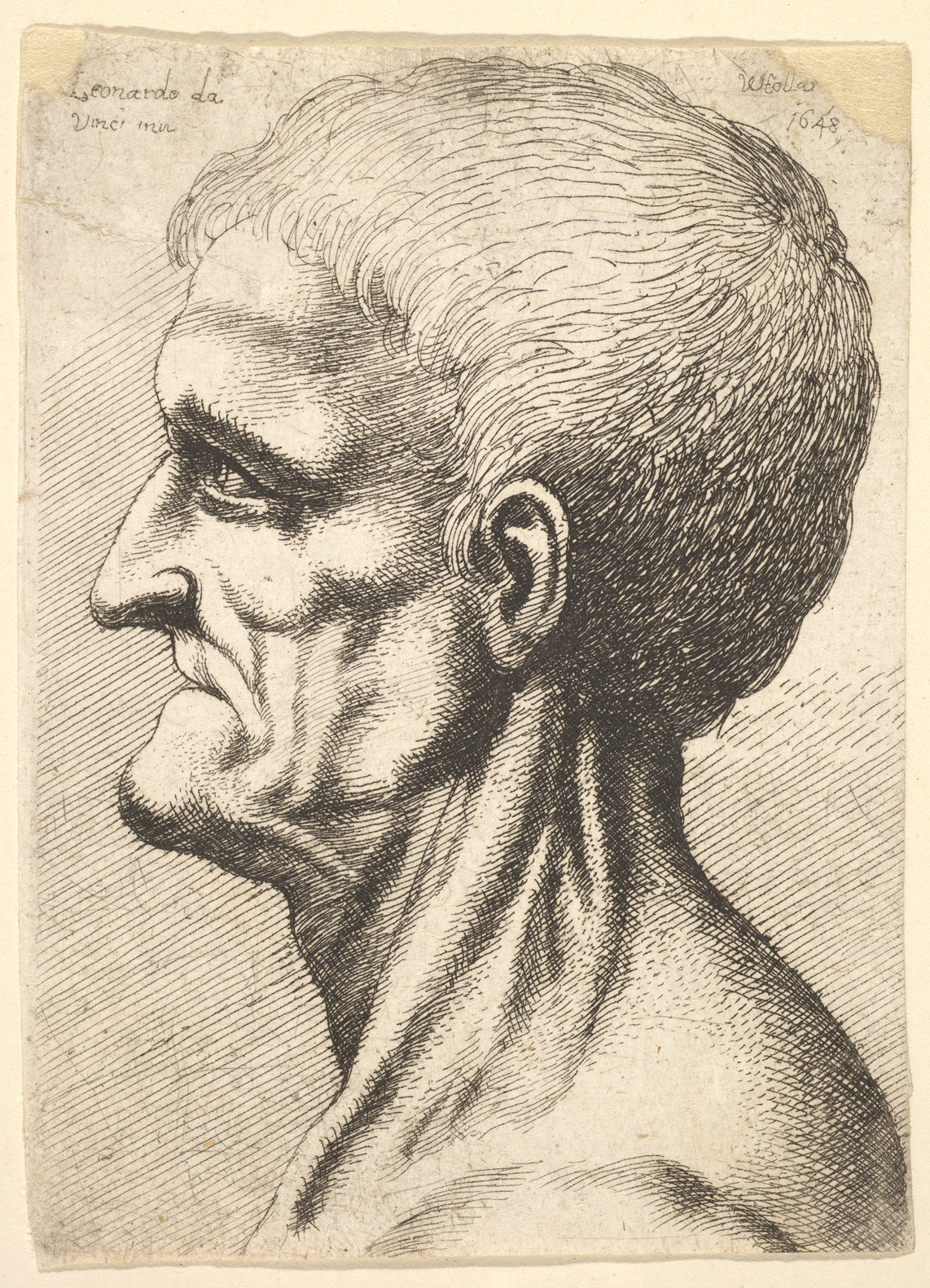 Print; Prints